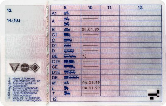 Specimen for the European driving licence used in Germany, back side